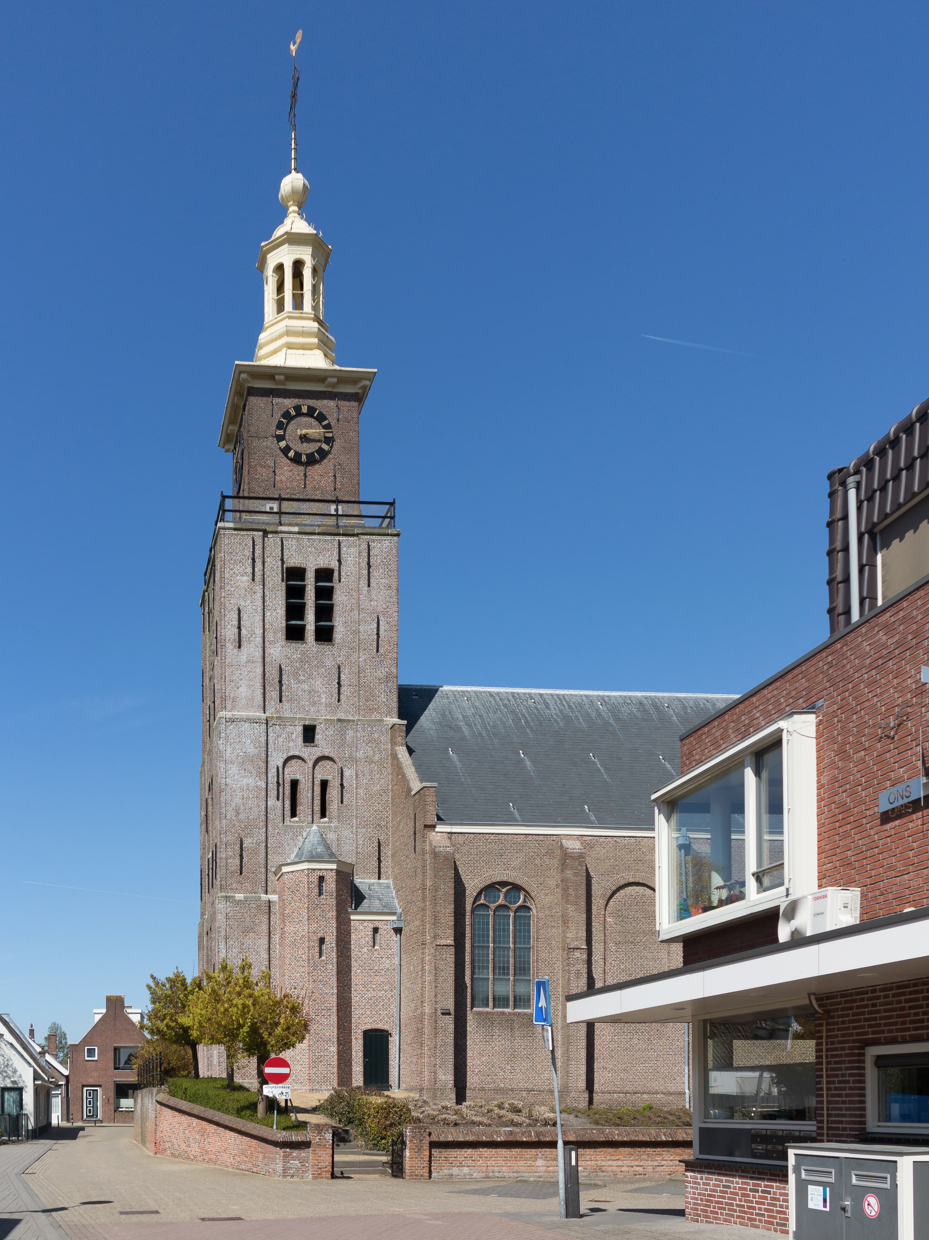 Hazerswoude- Dorp, reformed church